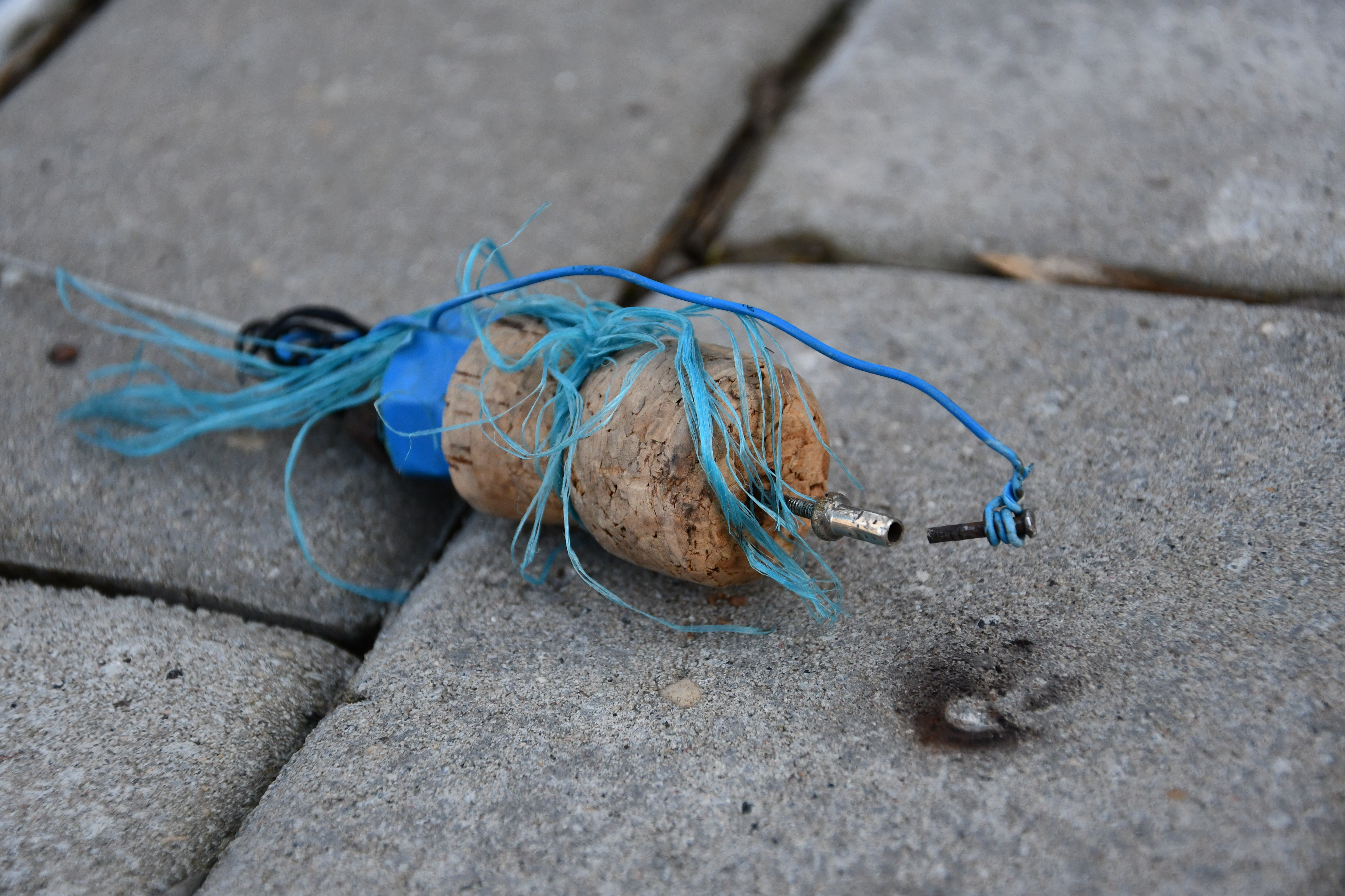 Popular pyrotechnical toy in USSR made of bicycle spoke, nail and using substance from matches head as explosive material